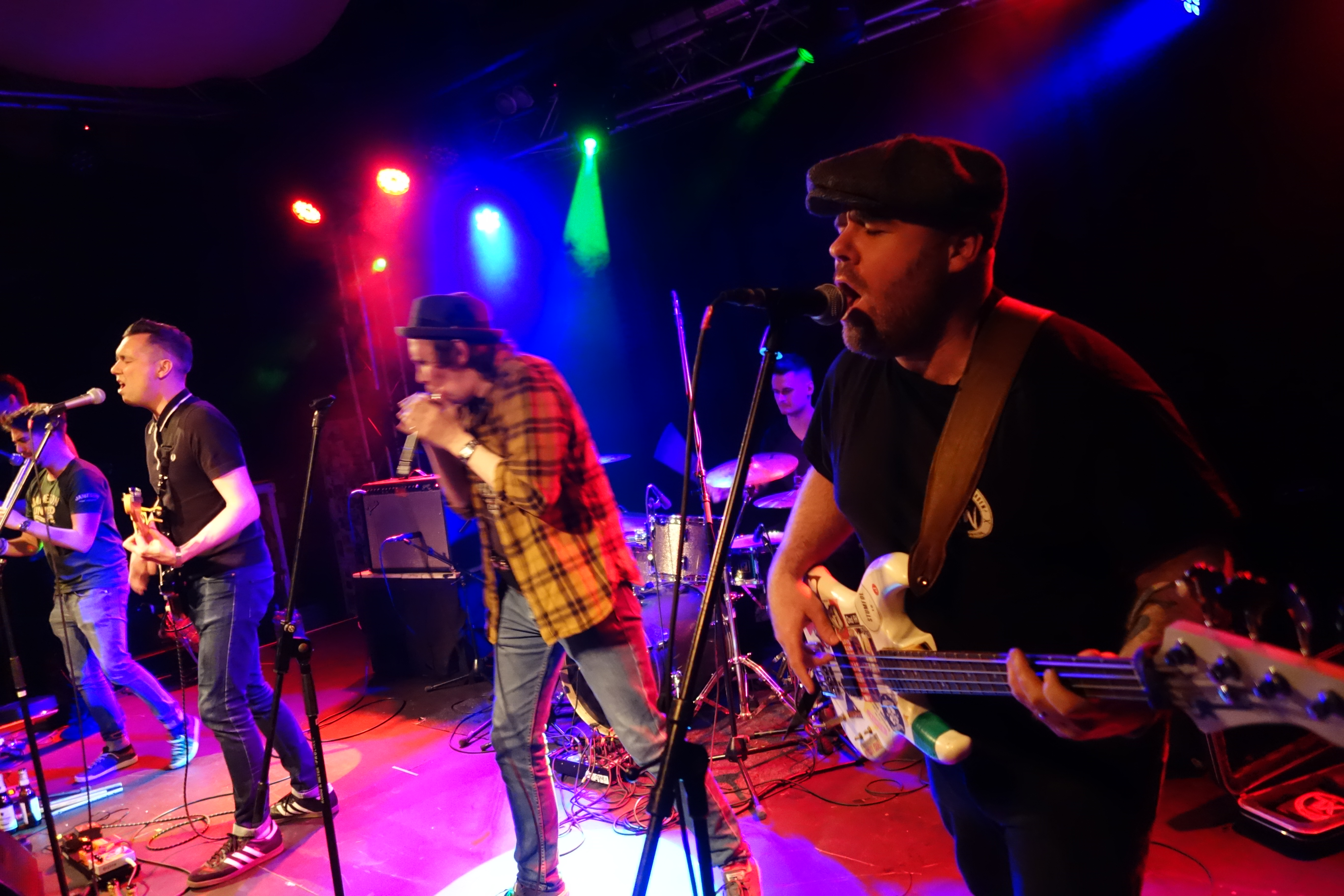 The Wakes live at "Das Bett", a club in Frankfurt, 13.04.2017